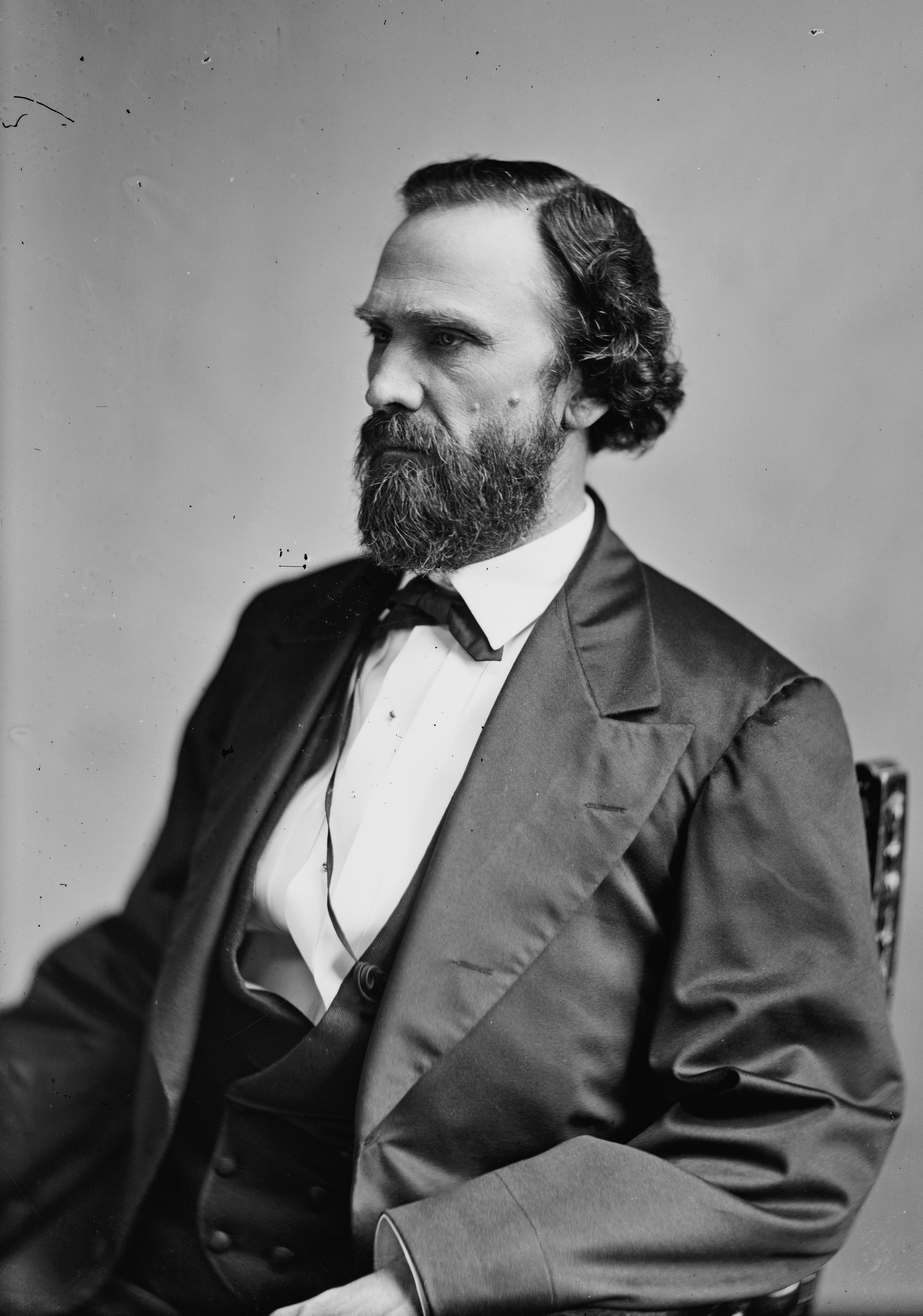 John DeWitt Clinton Atkins. Library of Congress description: "Atkins, Hon. (John DeWitt of Tenn) (Lt. Col. of 5th Tenn Inf. C.S.A.)"